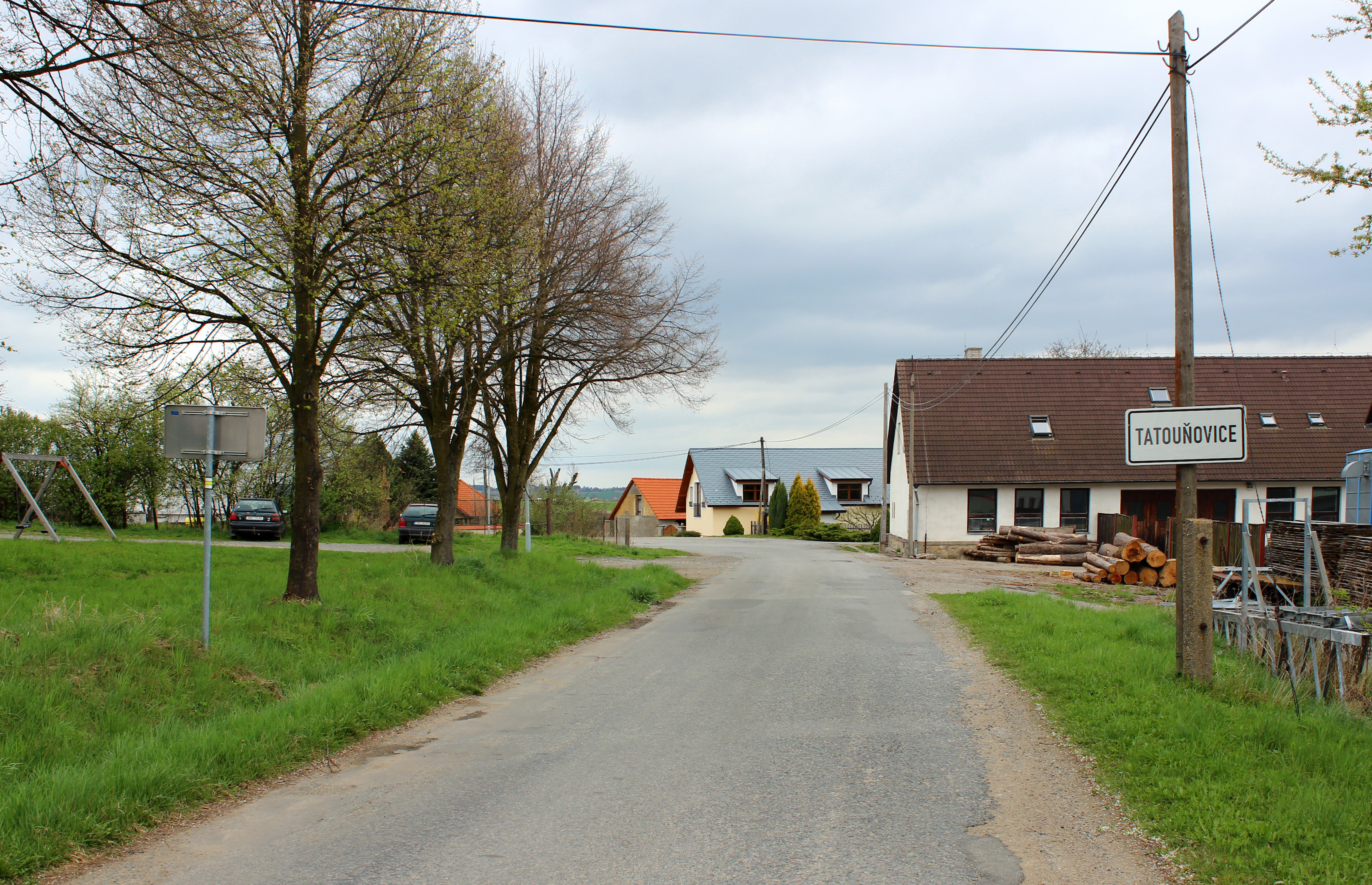 South part of Tatouňovice, part of Čakov village, Czech Republic